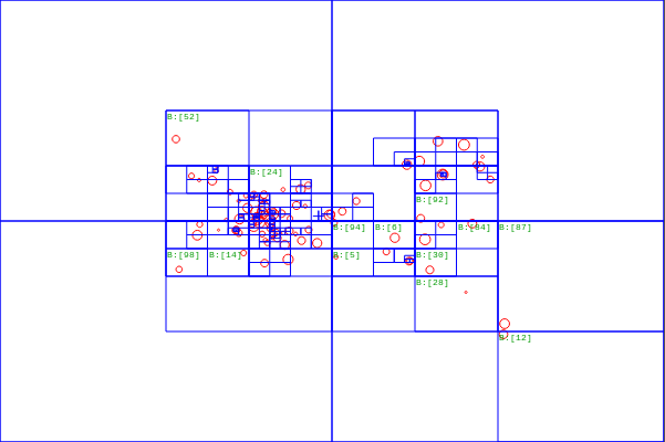 In 2d, a Quad-Tree (2D Barnes-Hut tree) partitioning of 100 bodies for gravitational interactions. Graphics generated using HTML5 Canvas.